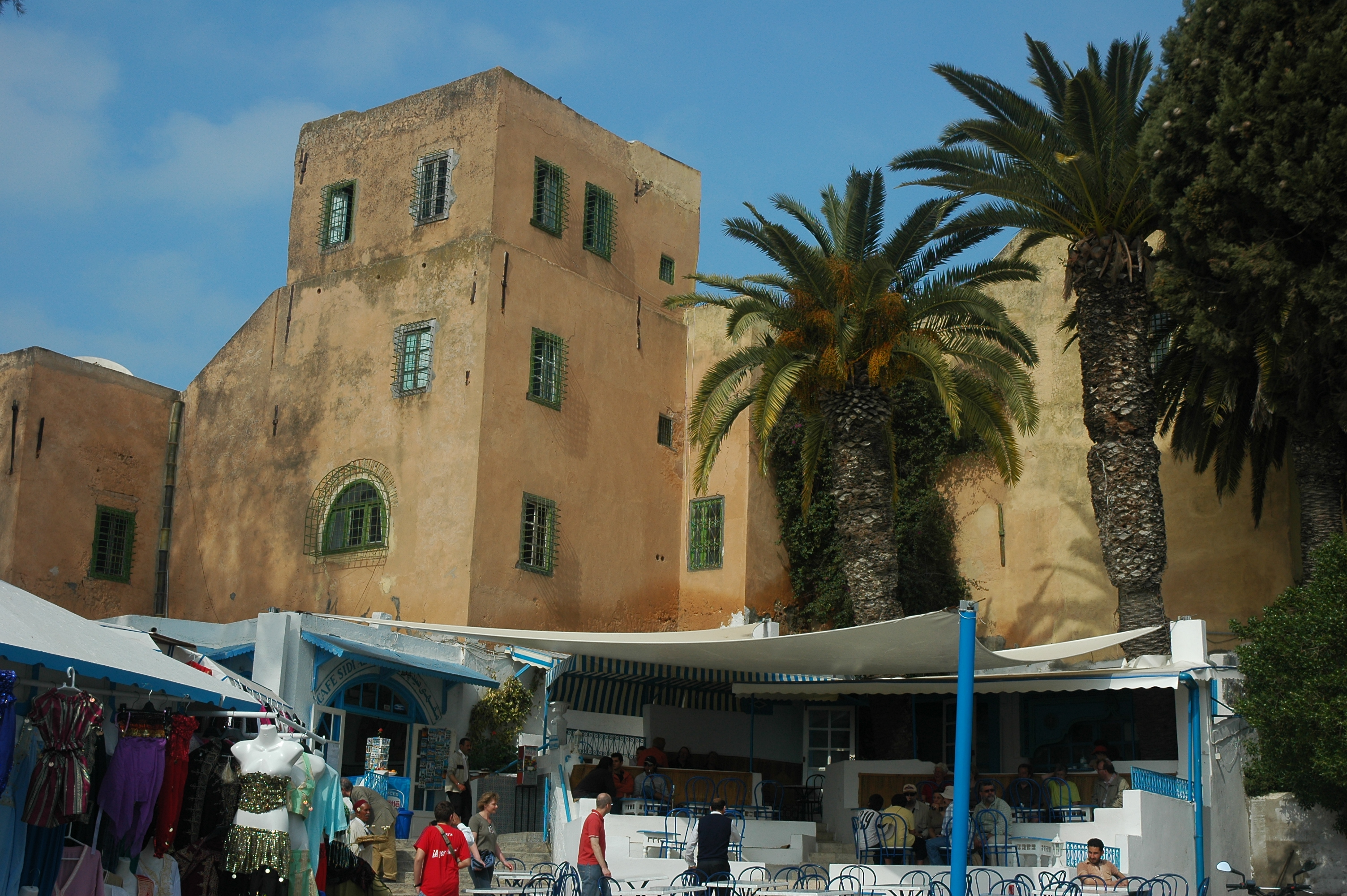 Sidi Bou Said in Tunisia